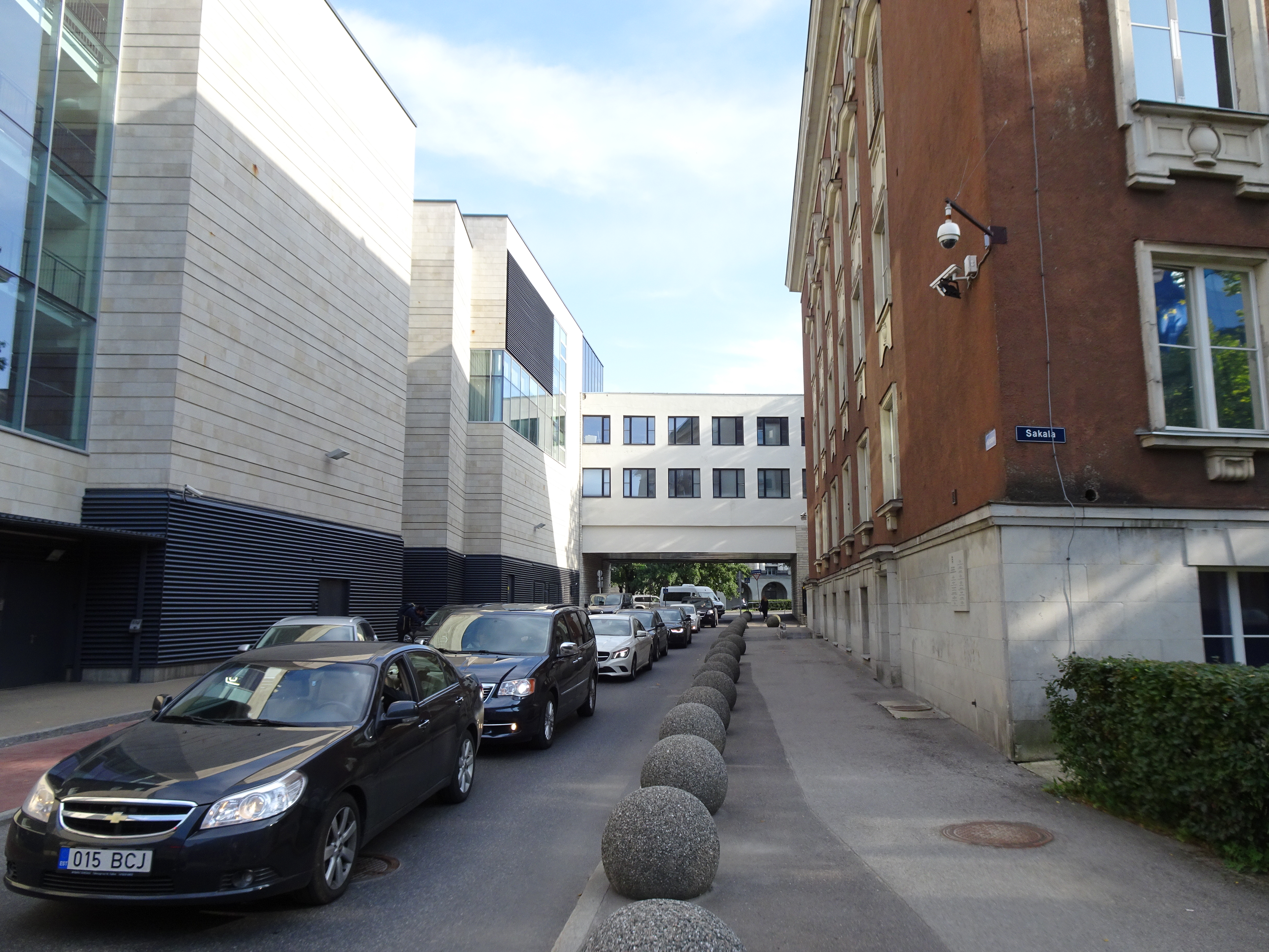 Krooni Street in Tallinn, Estonia